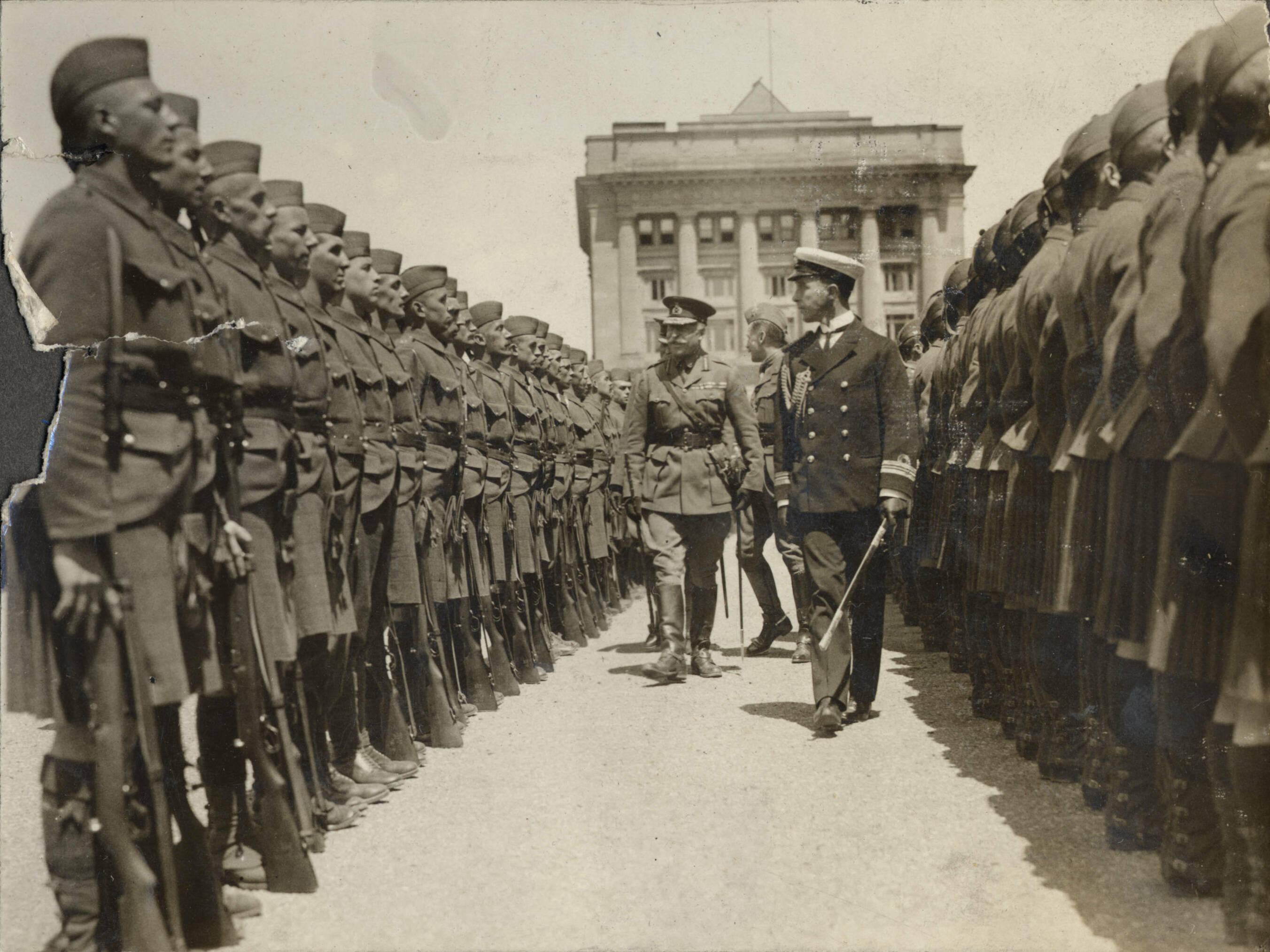 Item is a photograph taken by J. A. Millar from an album depicting scenes of the Canadian Expeditionary Force at Valcartier Camp, at Quebec, and at Gaspe Harbour immediately prior to sailing to Britain in 1914. Millar was a staff photographer of the Montreal Daily Star and produced the album in 1915.